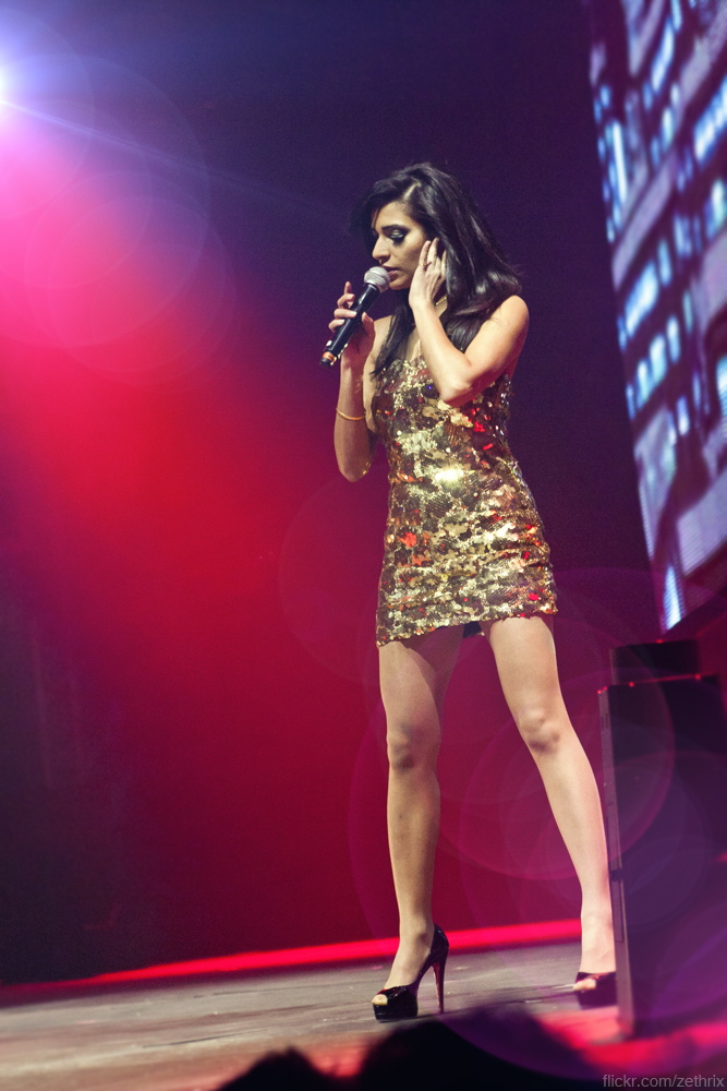 Nadia Ali performing at Armin Only in Poznań, Poland